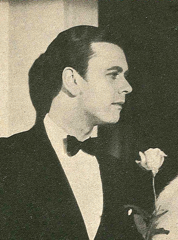 Per Aabel (1902-1999), Norwegian actor. Still from the Swedish film Ombyte förnöjer (1939) on the cover of sheet music featuring the song Aj, aj, aj, vilken röd liten ros from the film.